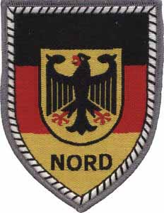 coat of arms Territorialkommando Nord (TerKd Nord) of the Bundeswehr (Armed Forces of the Federal Republic of Germany). → Remarks on naming and categorization scheme